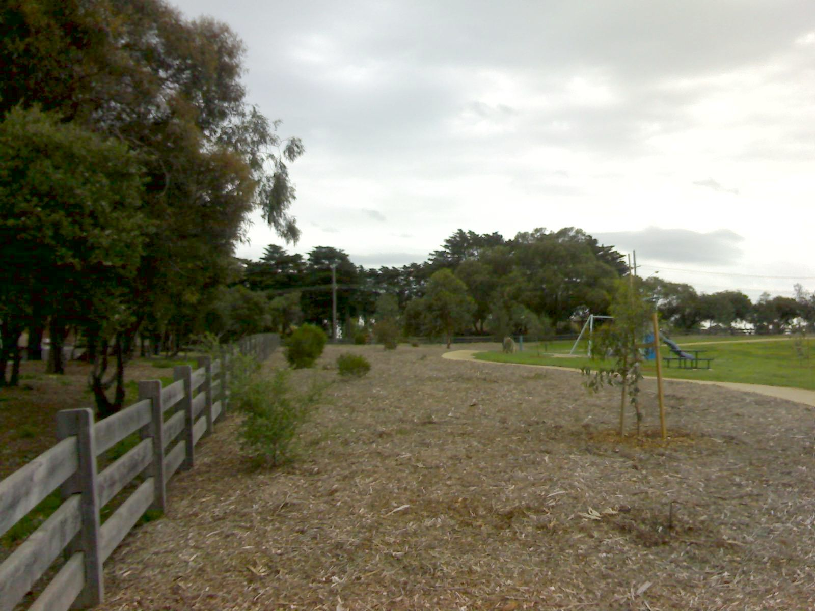 Mavis Hutter Reserve, located at the corner of Carroll Road and Bourke Road, Oakleigh South, Victoria, Australia.